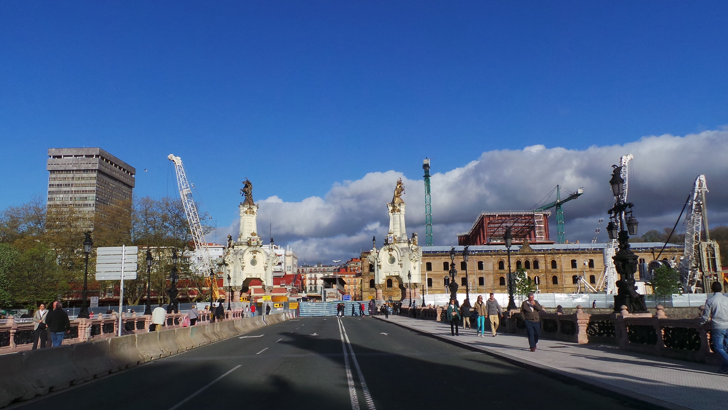 Bus station construction works near Maria Cristina zubia